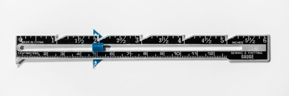 A 6" long metal sewing gauge, with a blue plastic slider.